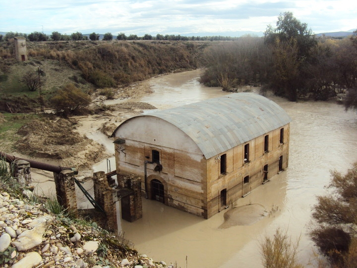 fabrica tilin